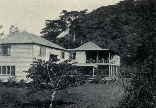 Robert Louis Steven home (called Vailima) in Samoa 1911